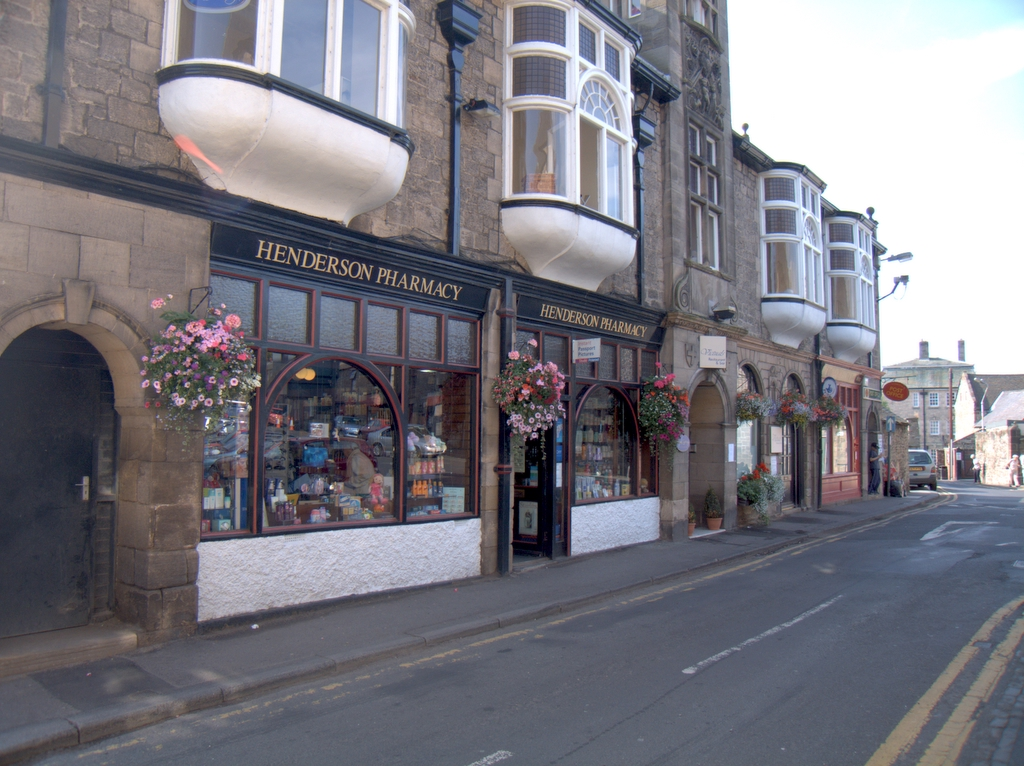 Corbridge, UK.